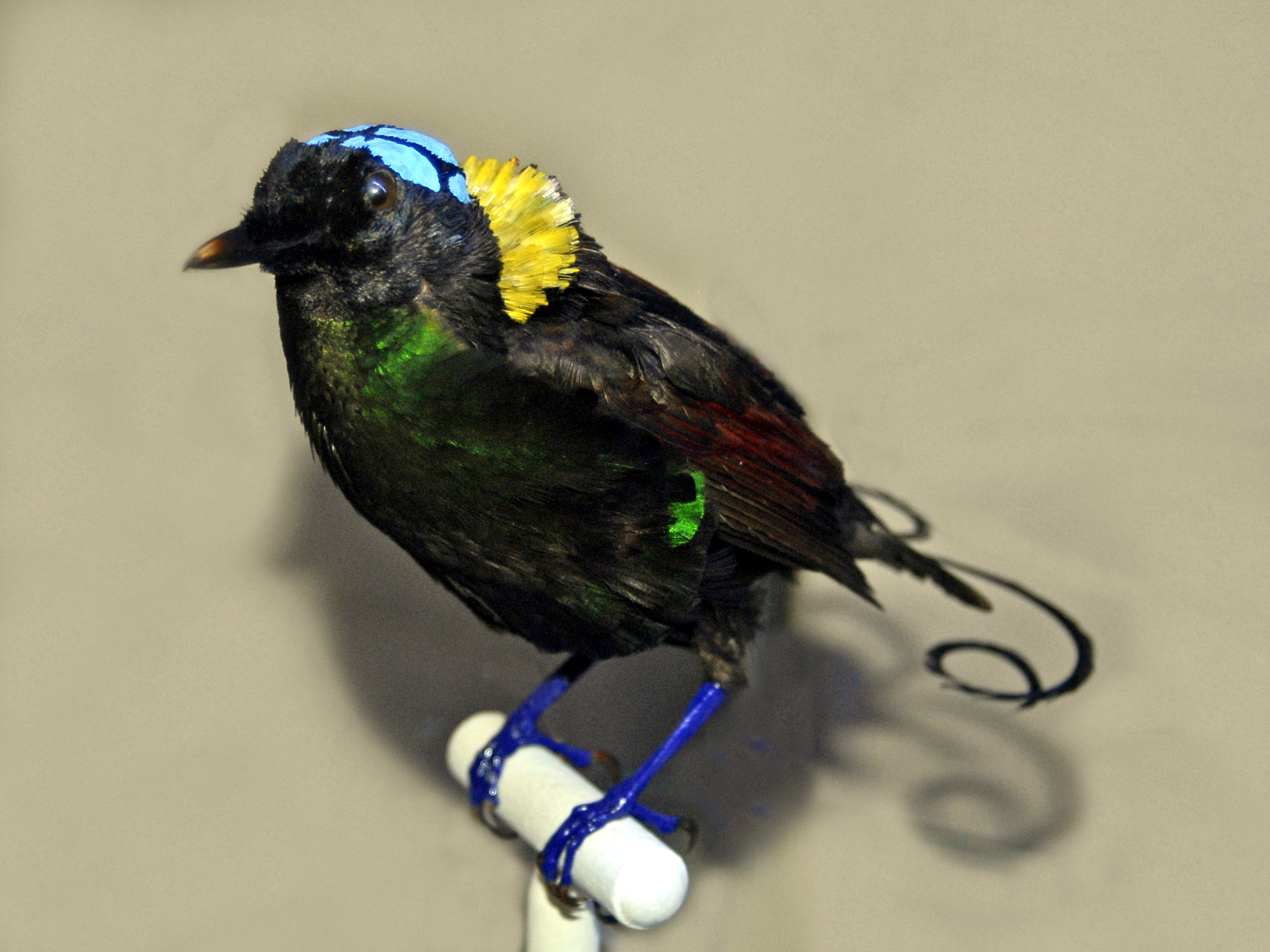 Cicinnurus respublica on display at the Civico Museo di Storia Naturale di Genova. Batanta, coll. 1875.07.25 Odoardo Beccari